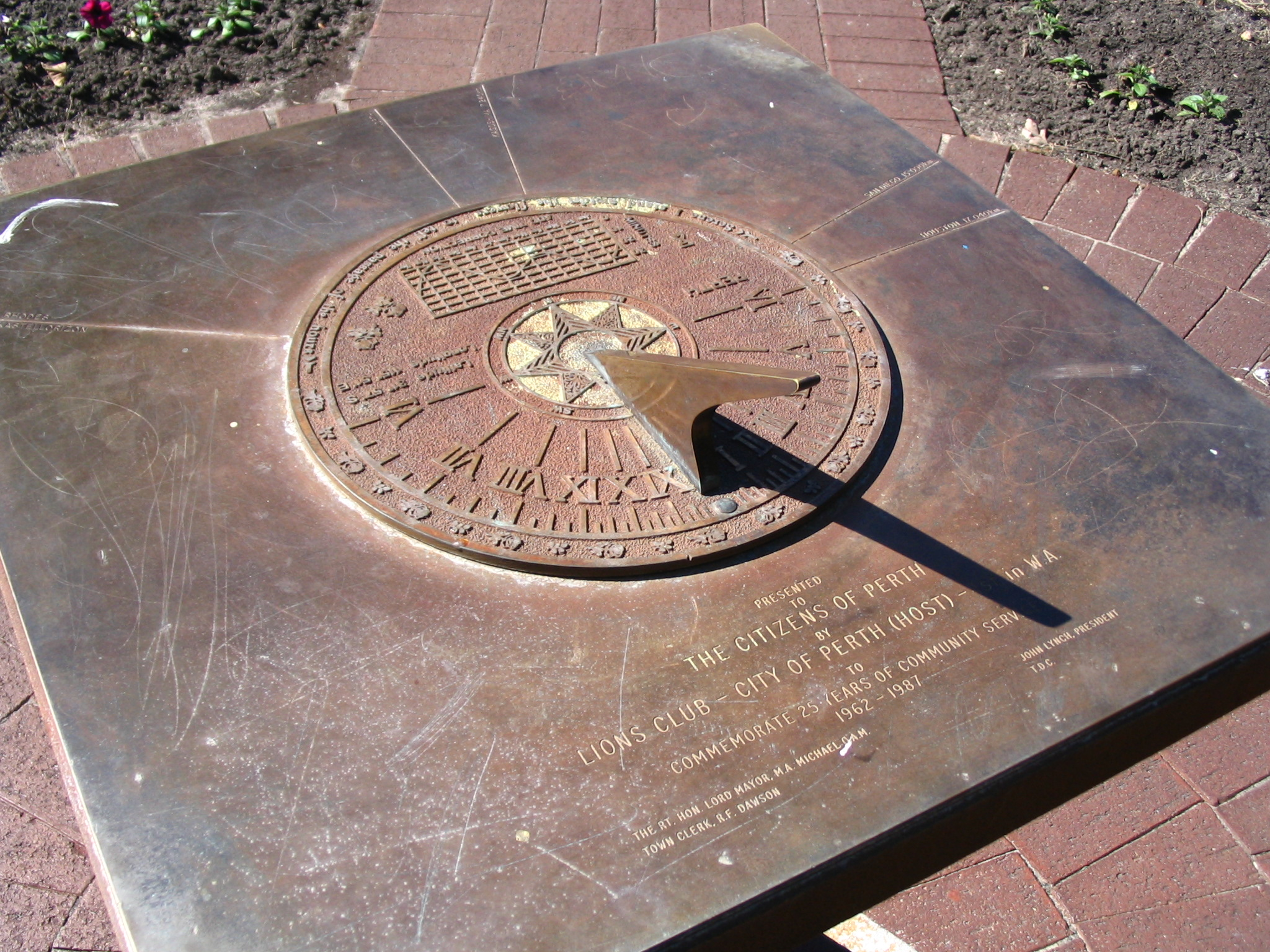 Sundial in Supreme Court Gardens near courthouse in Perth. Text reads: PRESENTED TO THE CITIZENS OF PERTH BY LIONS CLUB - CITY OF PERTH (HOST) ST. in W.A. TO COMMEMORATE 25 YEARS OF COMMUNITY SERVICE 1962-1987 THE RT. HON. LORD MAYOR, M.A. MICHAEL [illegible character].A.M. TOWN CLERK, R.F. DAWSON JOHN LYNCH, PRESIDENT T.D.C.